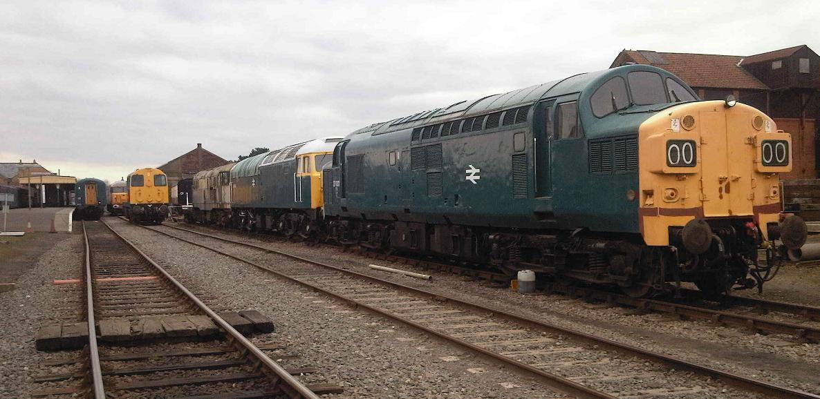 A range of heritage diesels at Dereham. (PTS holder took photo)